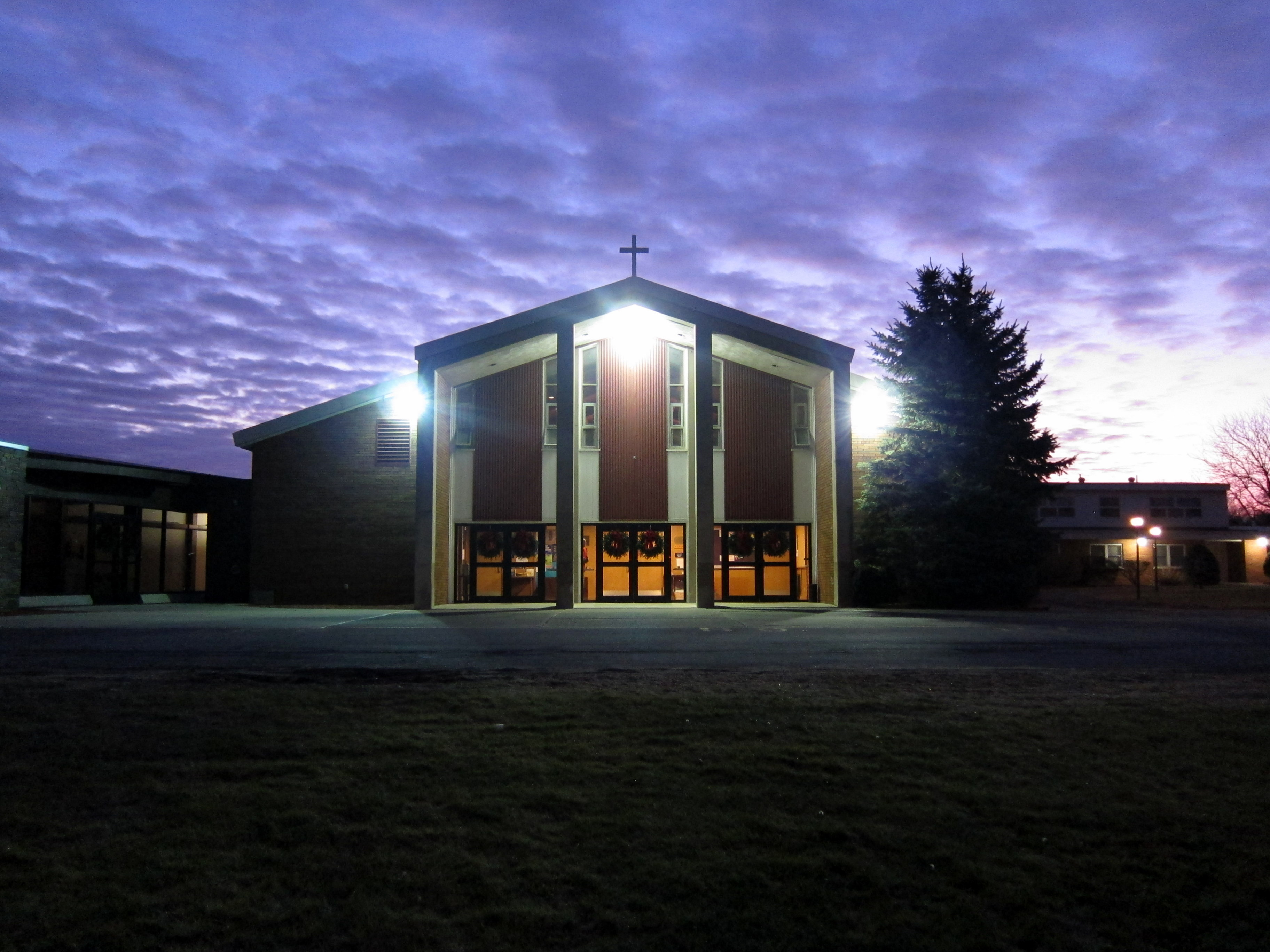 Church of St. Ambrose (Latham, New York), exterior